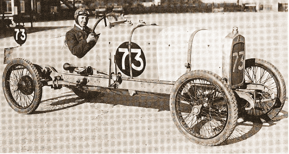 1919 Enfield-Alldays Bullet